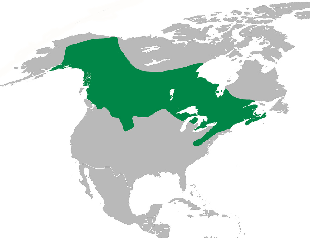 A map showing the distribution of Papilio canadensis.